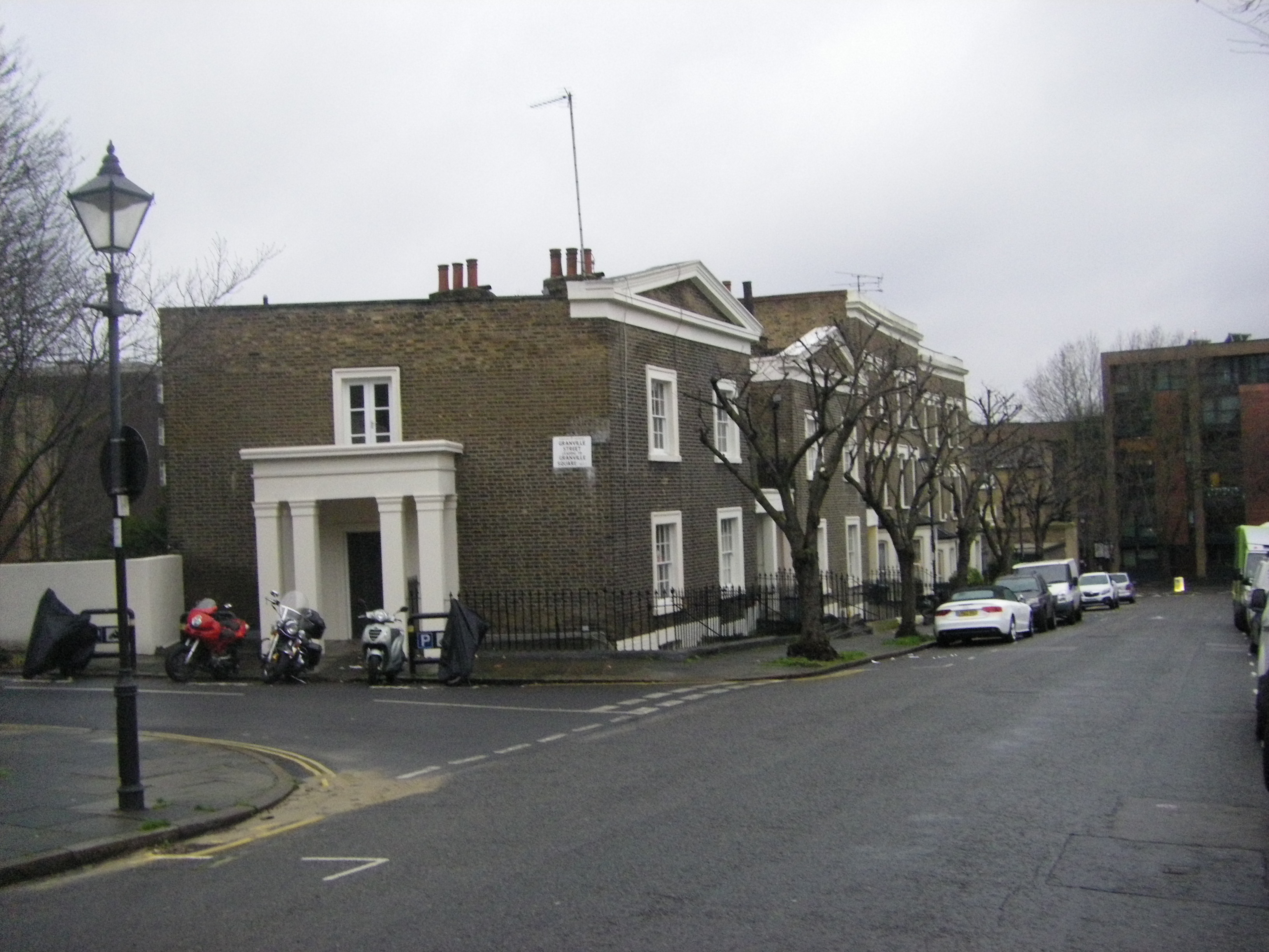 View to the lower end of Wharton Street, London. The house on the left (on the junction to Granville Street) is number 44 which was once the address of George du Maurier.